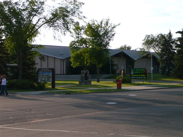 I took this picture myself on June 21, 2007